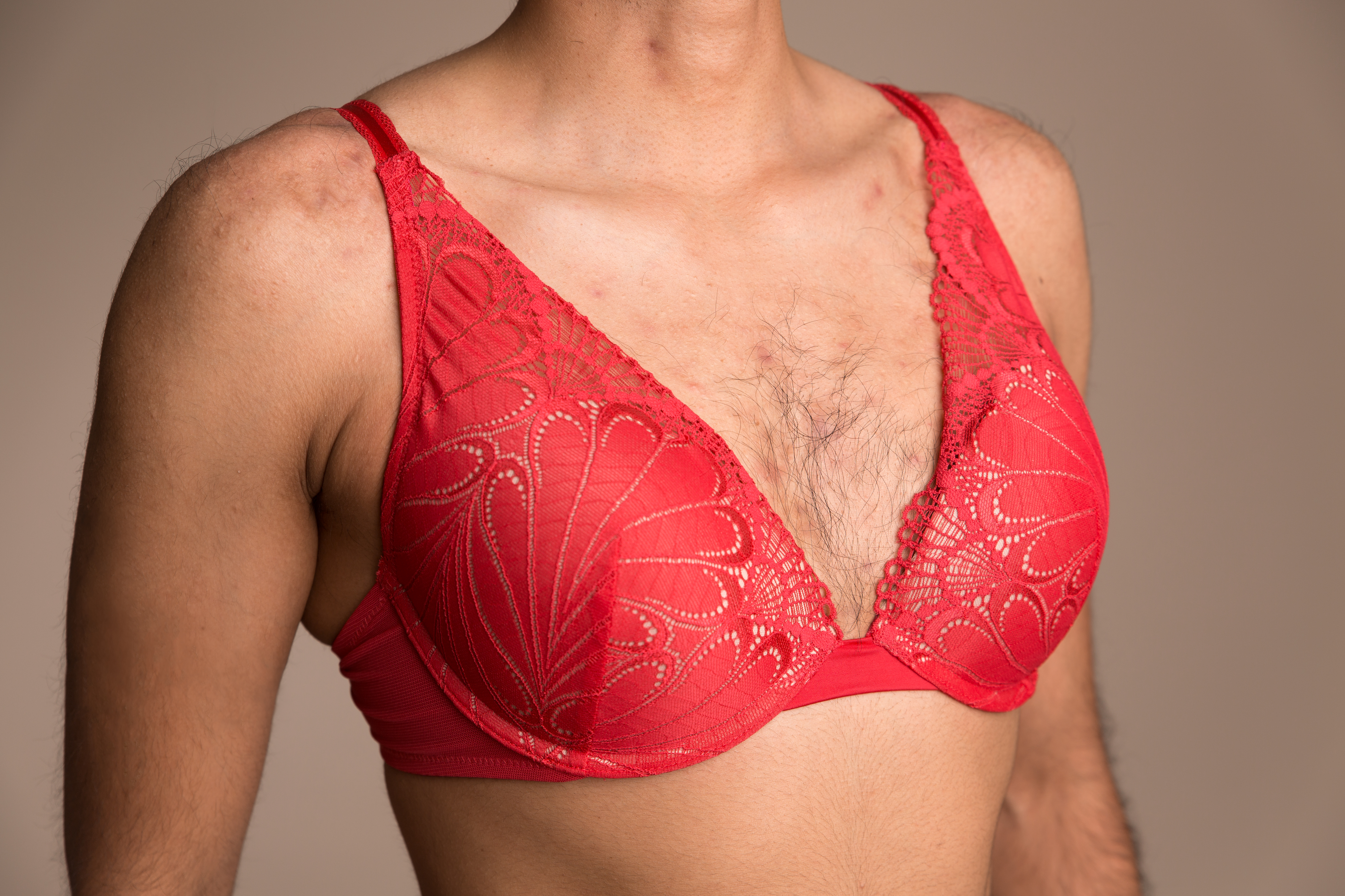 Alexander, 30 years old